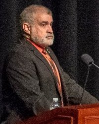 Steven A. Boylan, Panel Moderator, U.S. Army Command and General Staff College